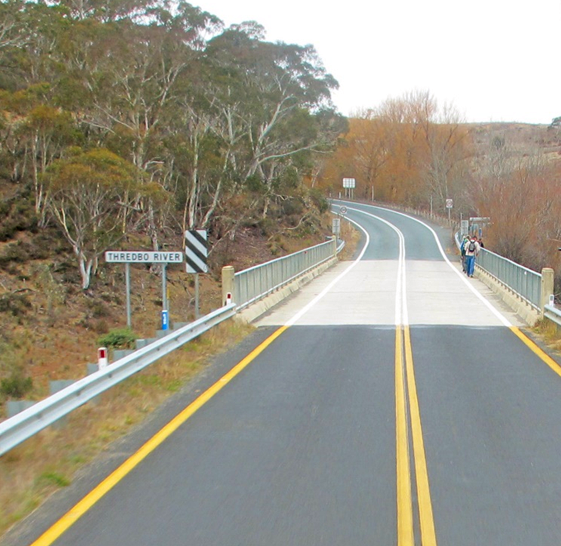 Thredbo River, a point in which the white lines become yellow as the level of snowfall increases